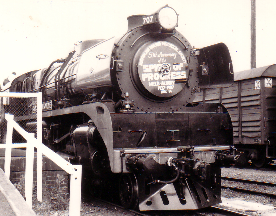 Victorian Railways R class locomotive R 707 hauling an Australian Railway Historical Society commemorative 50th Anniversary Spirit of Progress tour, Benalla railway station, Victoria, 14 November 1987.